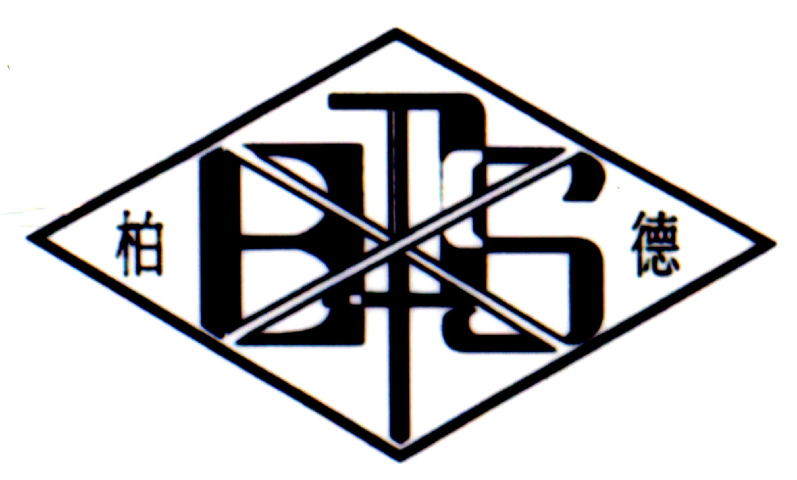 Logo for Bishop Paschang Catholic School